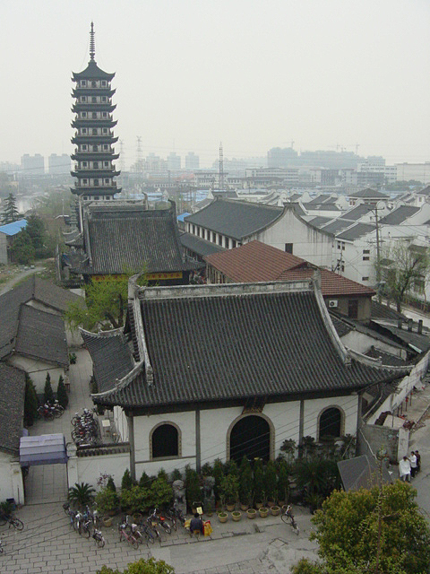 更多haier7917的中国古建照片/ more photos of ancient chinese architecture by haier7917：